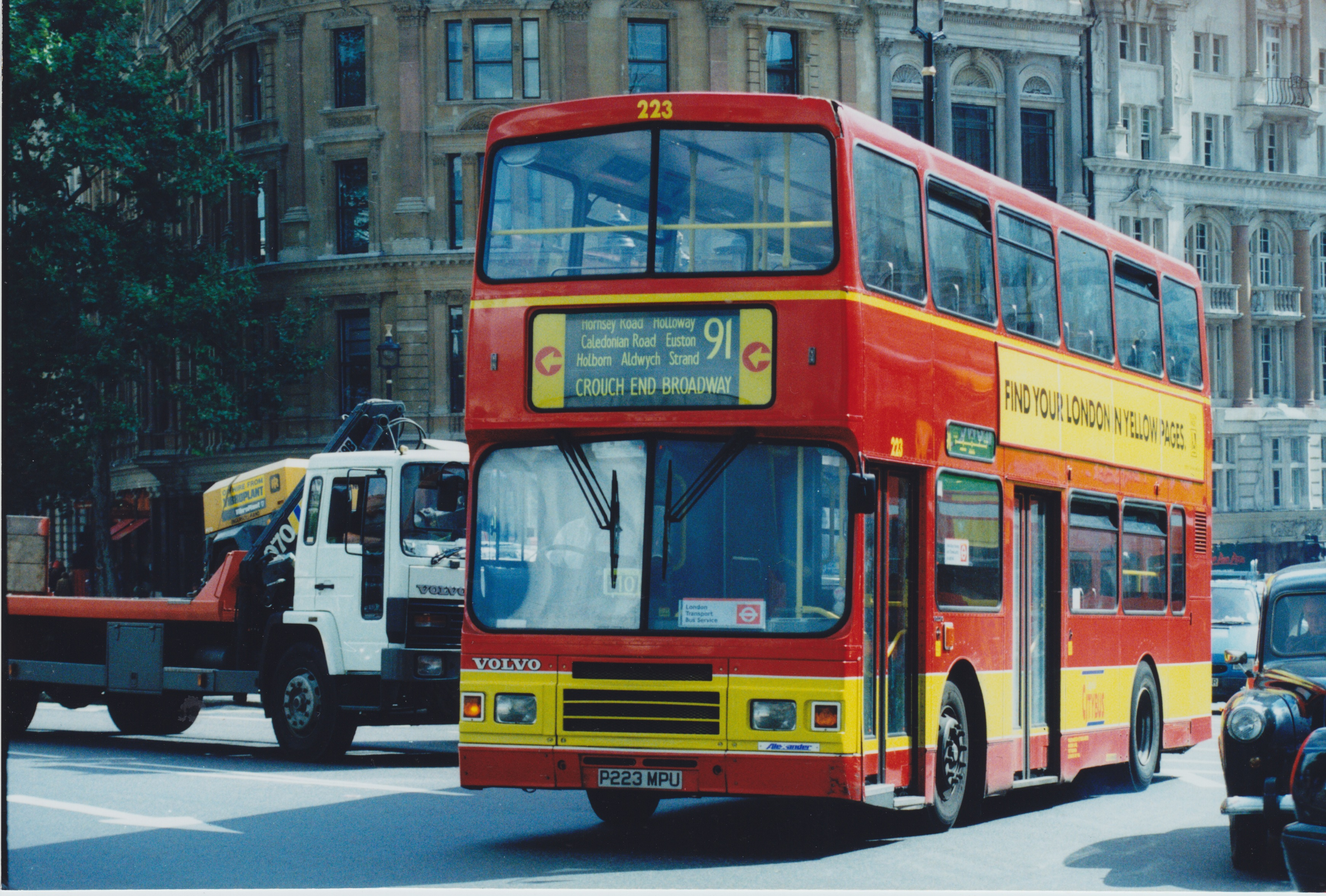 223 Capital Citybus P223MPU